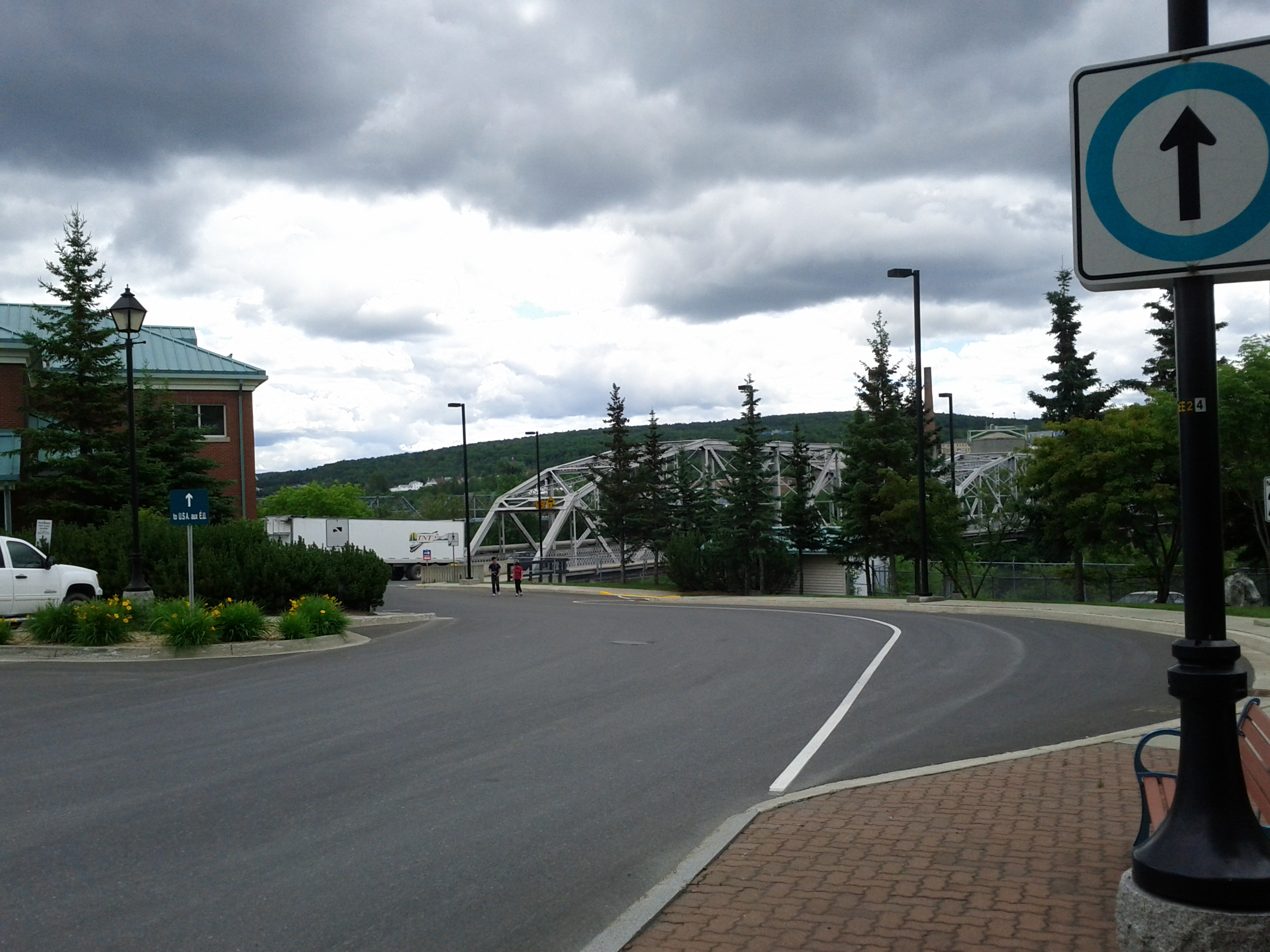 The Edmundston, New Brunswick customs house. In the background, the bridge linking this Canadian town to Madawaska, Maine.